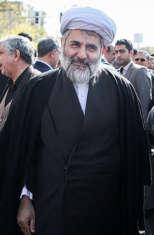 Hossein Taeb